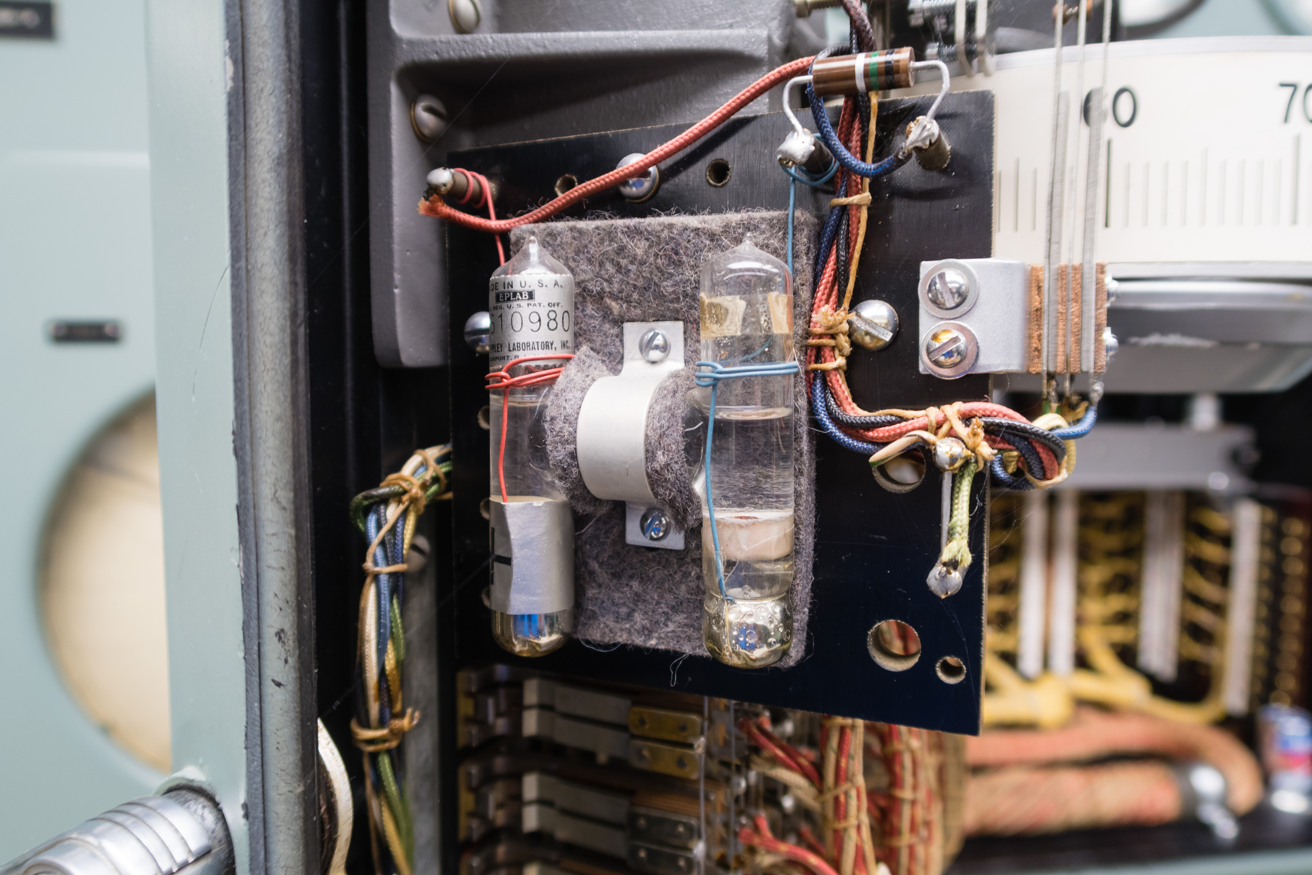 I think this is a Weston cell.